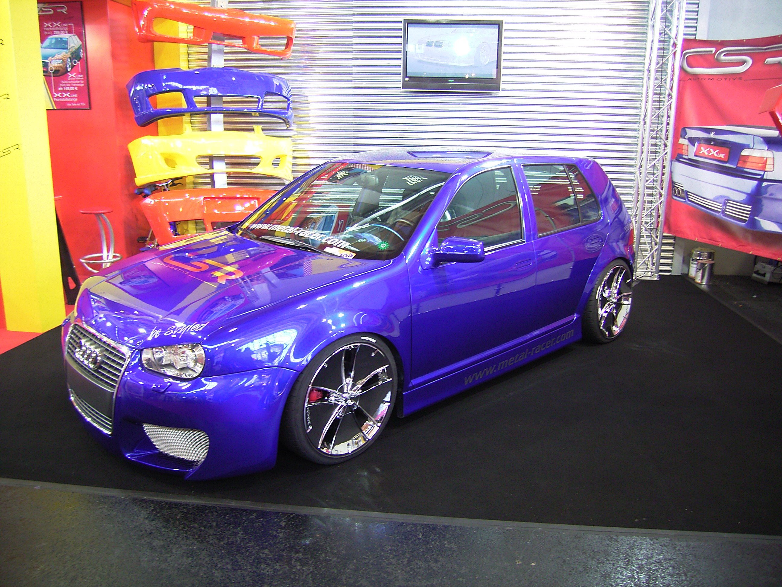 VW Golf IV with Audi A3 mask